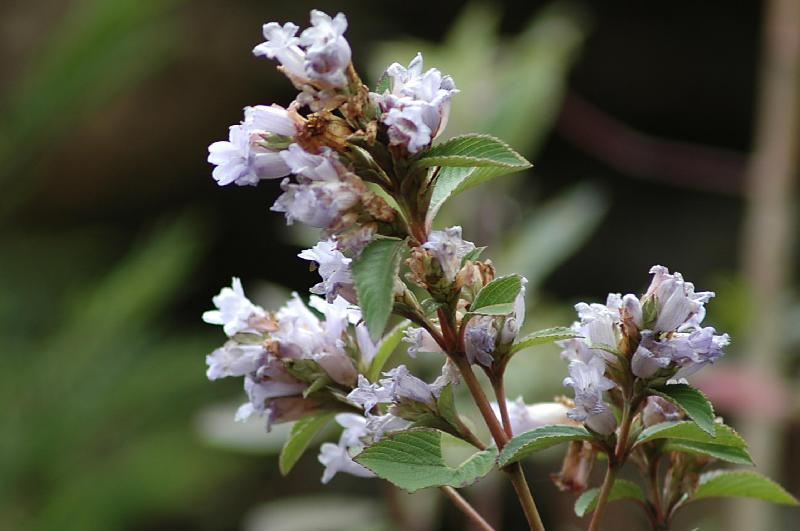 Moving from English Wikipedia to Commons. Below is the summary from En Wikipedia. Photographed by Suresh Krishna. (uploaded with his permision)